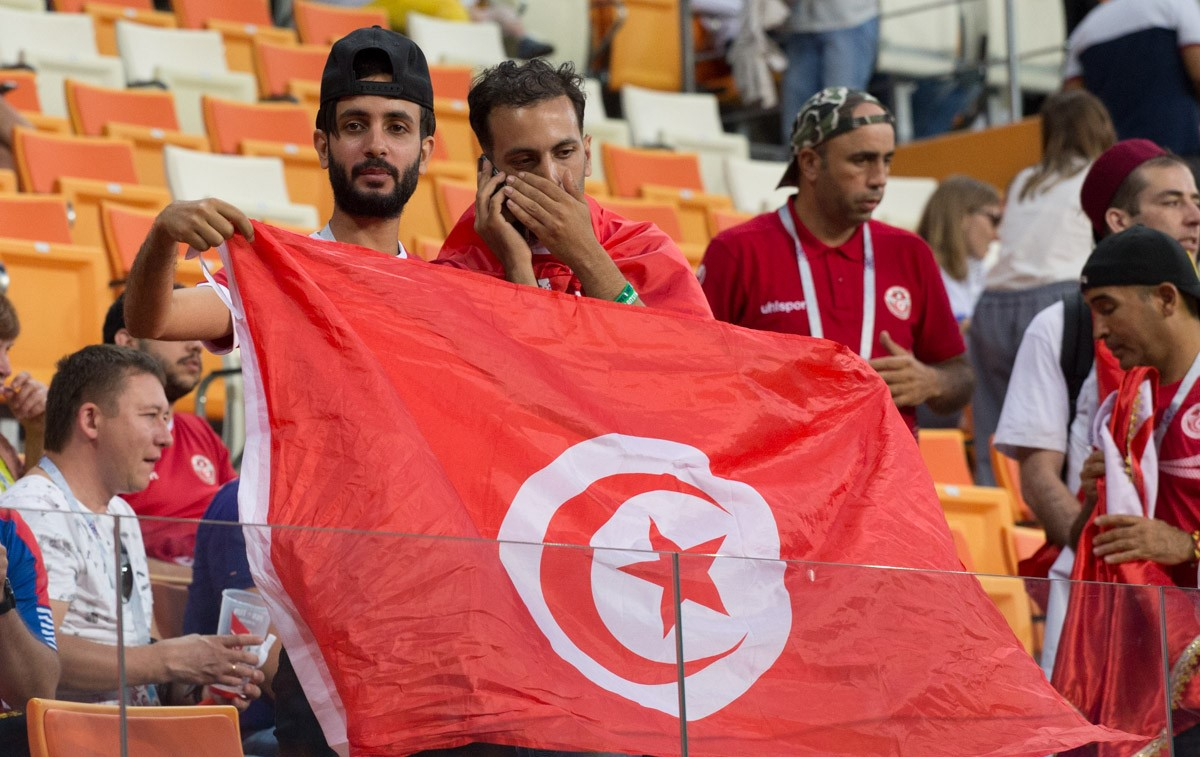 2018 FIFA World Cup Match 46, Panama v Tunisia